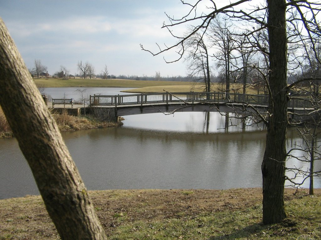 The bridge at Powell Gardens, Kingsville, MO, USA.